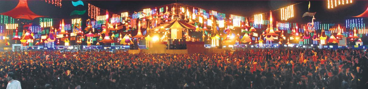 United Way of Baroda's Garba Festival 2011 (1st Day)